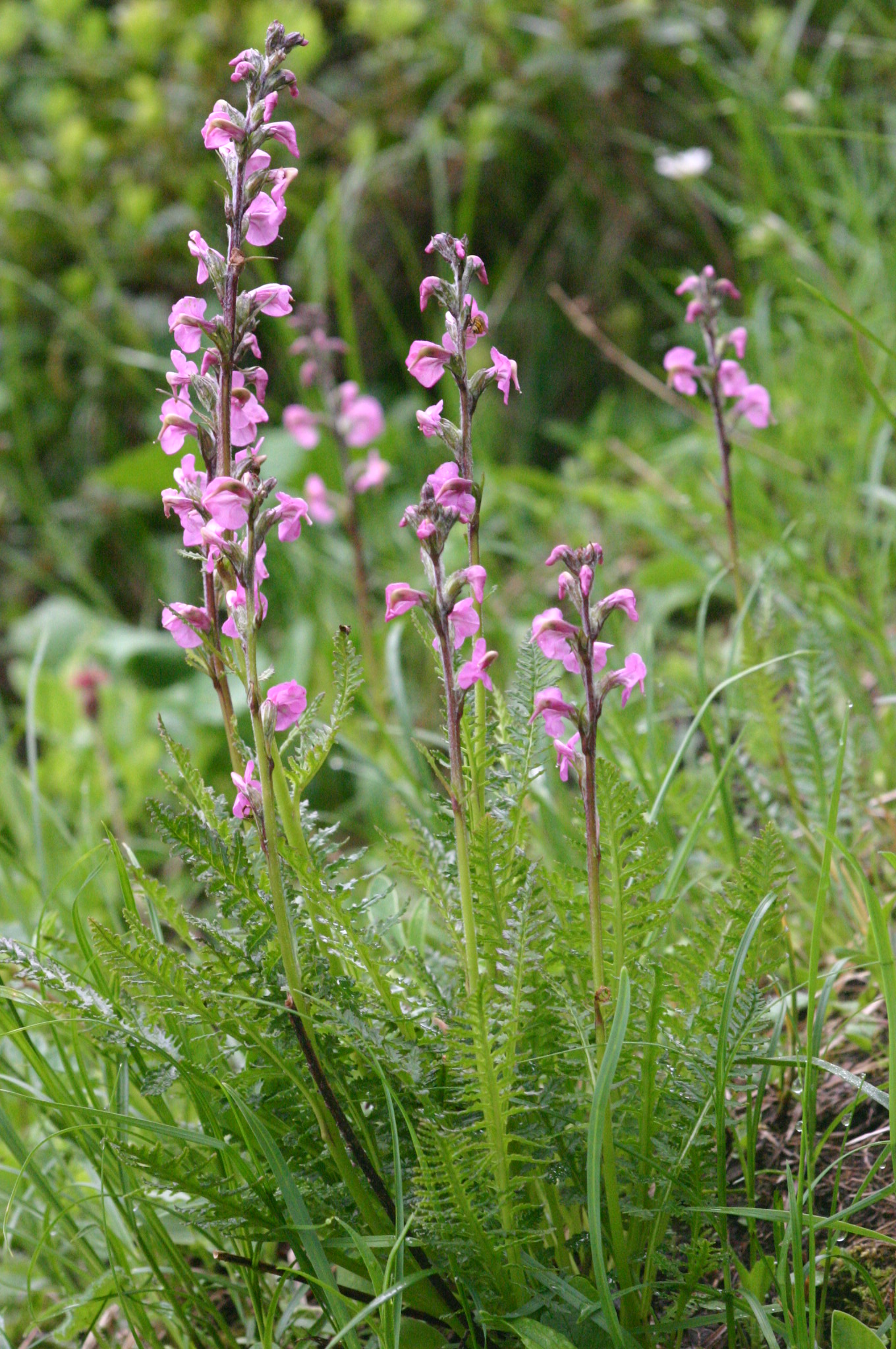 Pedicularis rostratospicata ssp. rostratospicata